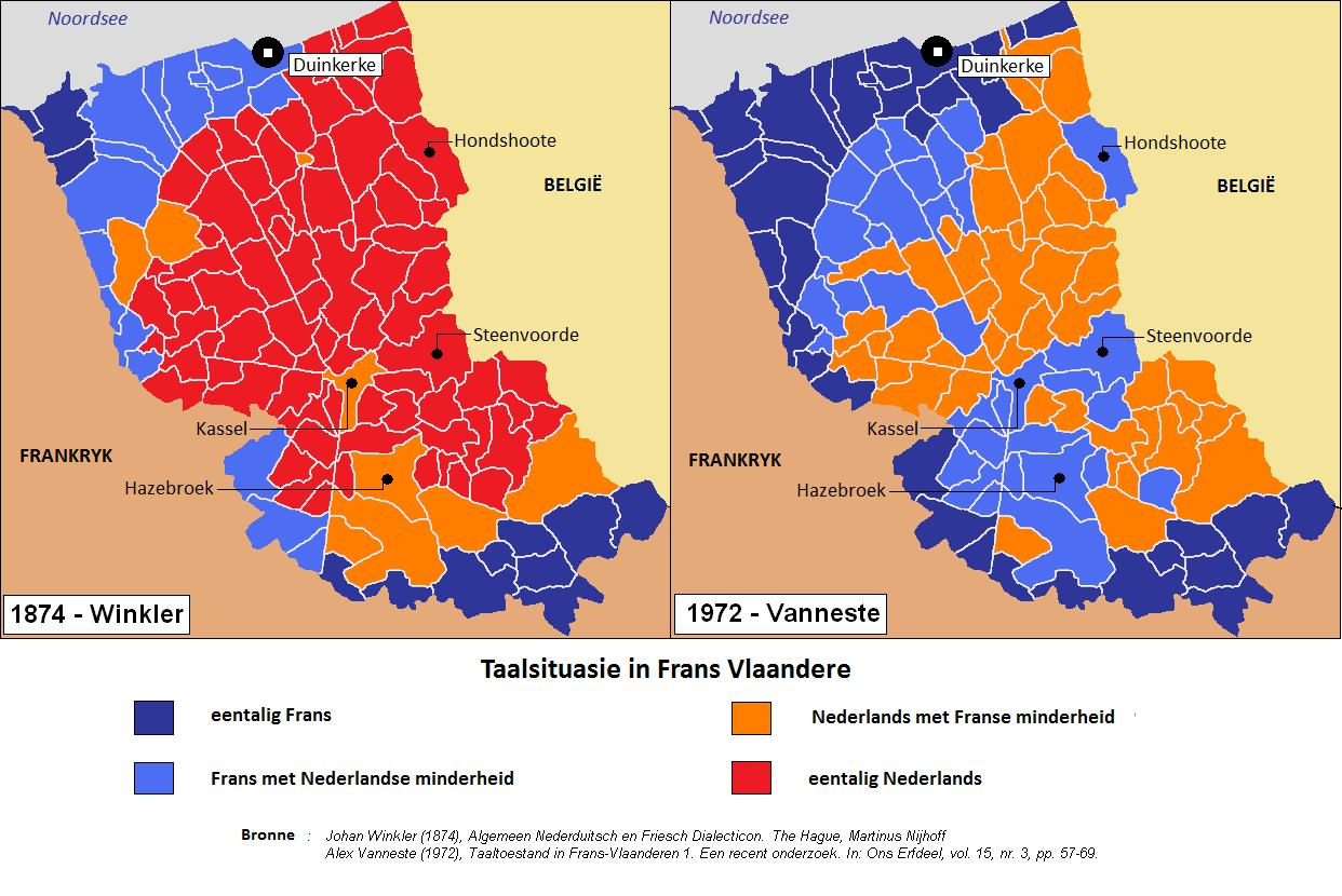 Language situation in French Flanders